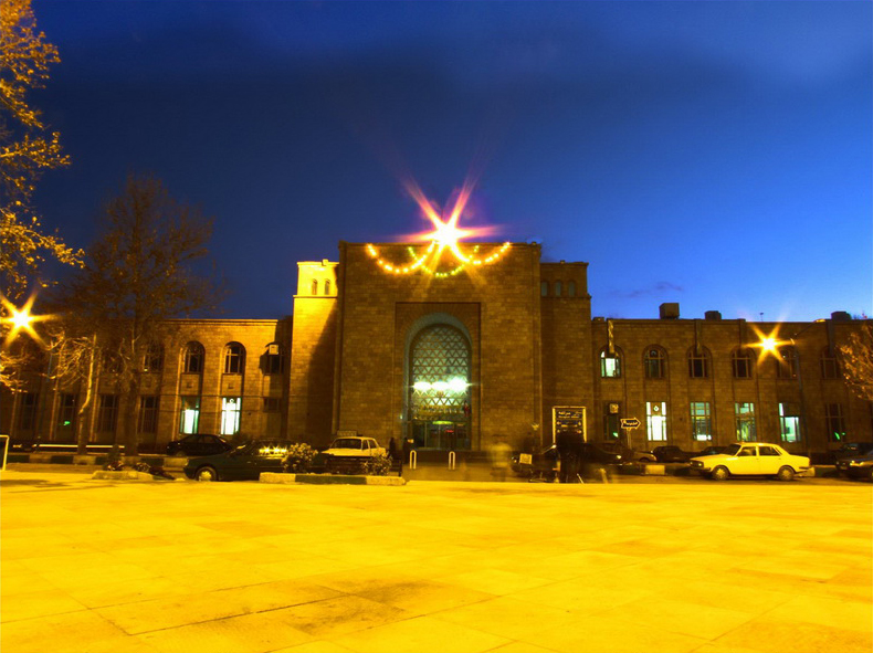 Train station of Maragheh, Iran.